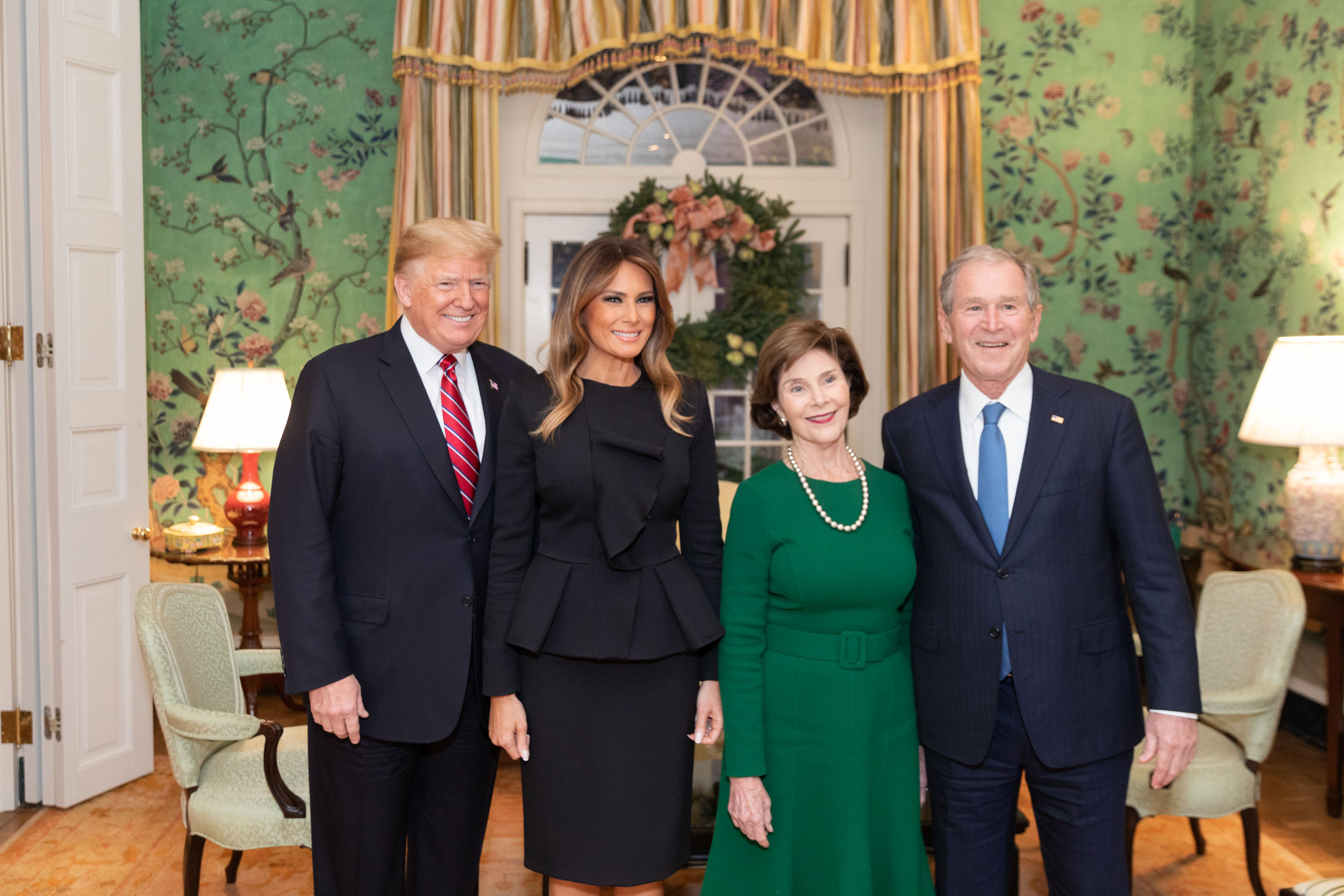 President Donald J. Trump and First Lady Melania Trump visit with former President George W. Bush and former First Lady Mrs. Laura Bush Tuesday, December 4, 2018, at the Blair House in Washington, D.C. (Official White House Photo by Shealah Craighead)